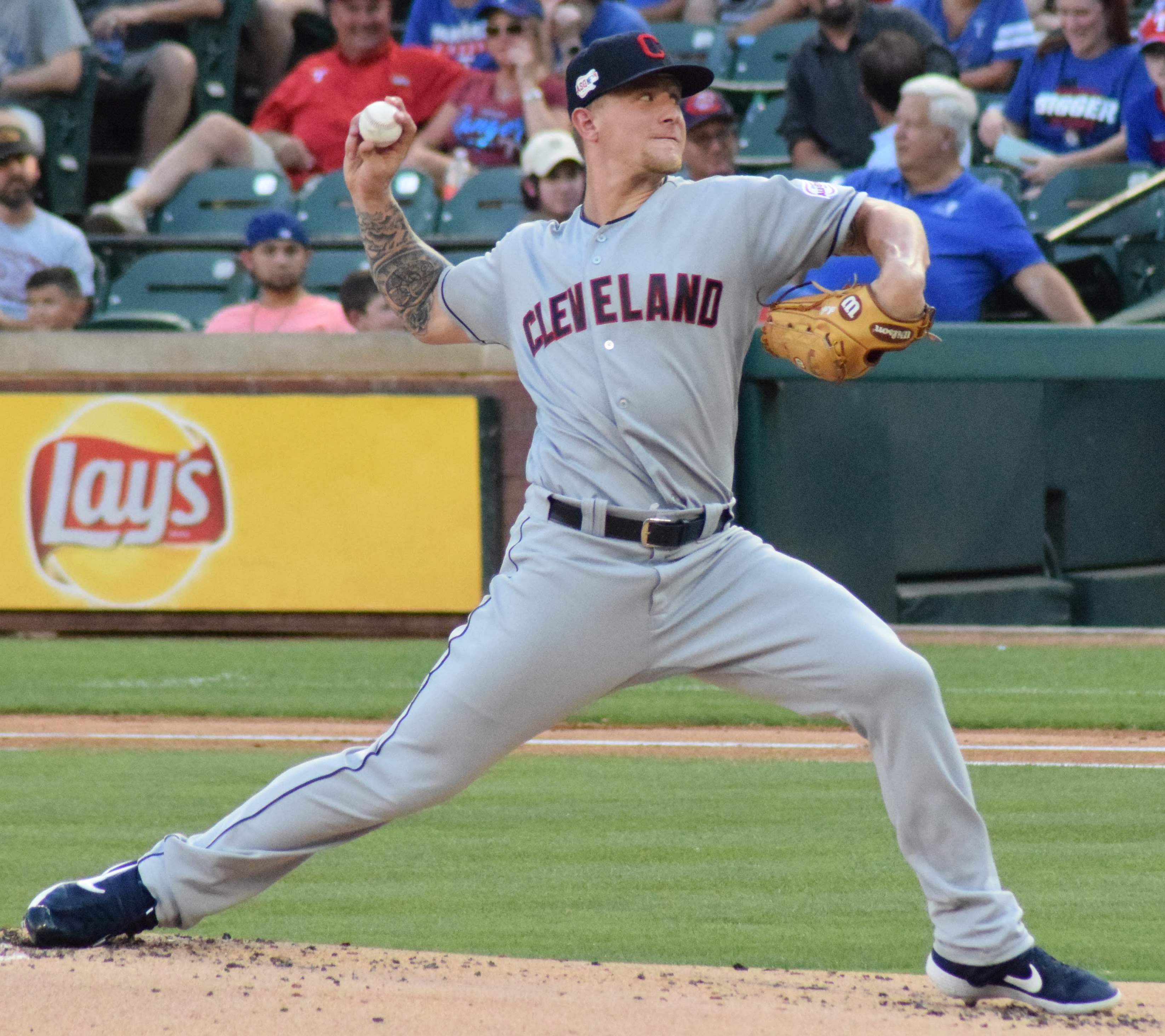 Zach Plesac delivers a pitch for the Cleveland Indians during a 2019 game at Globe Life Park in Arlington, Texas